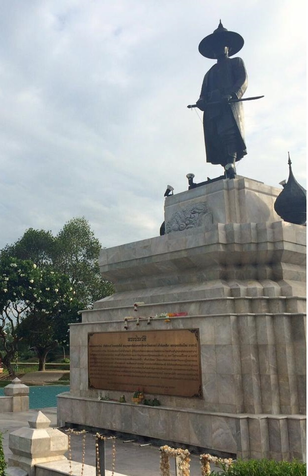 kingkawila